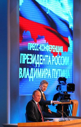 Vladimir Putin's news conference took place at the World Trade Centre on Krasnopresnenskaya Embankment. Moscow, 2012-12-20.